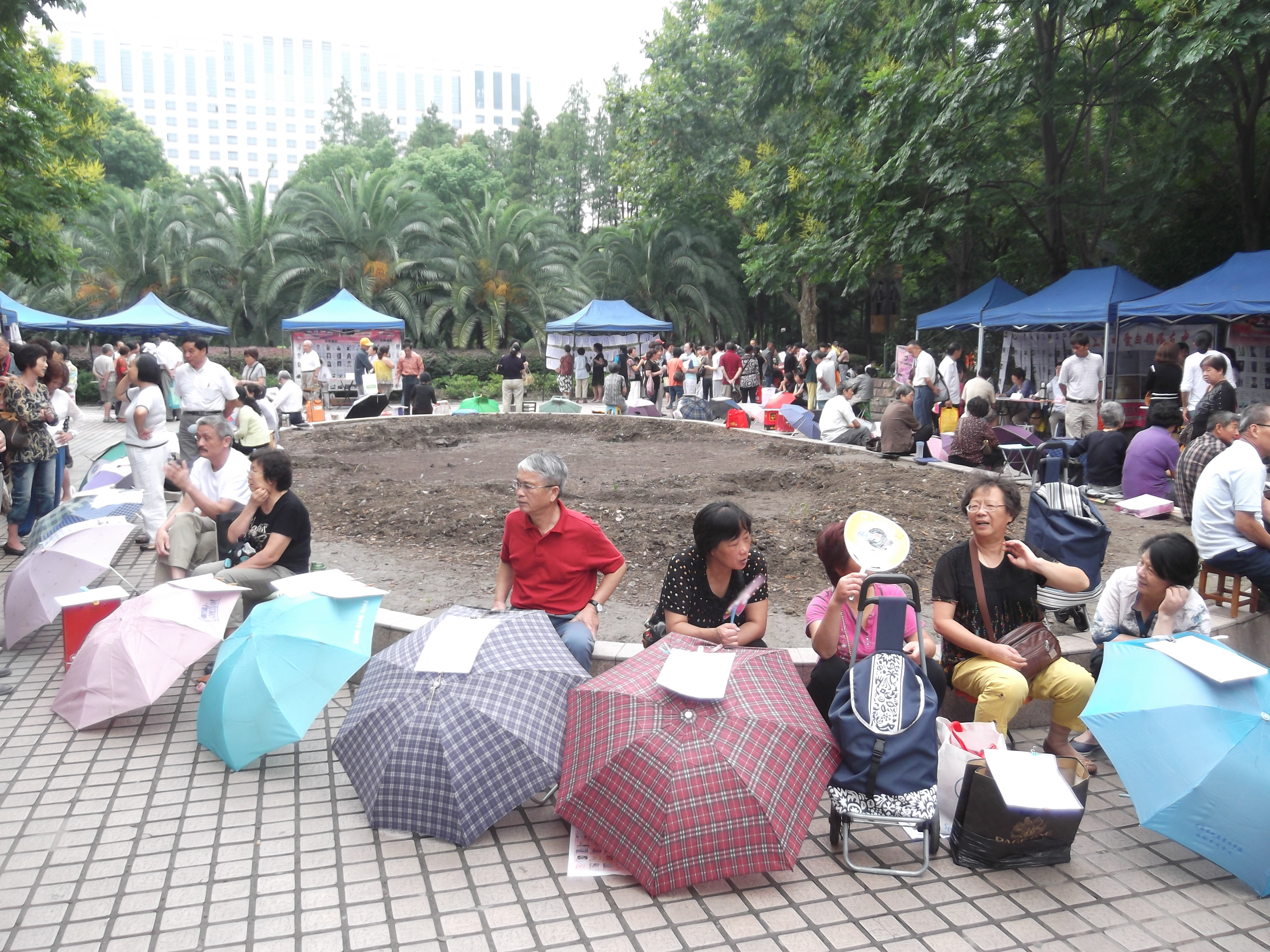 Umbrellas at marriage market with stalls in the background at People's Park, Shanghai, China.